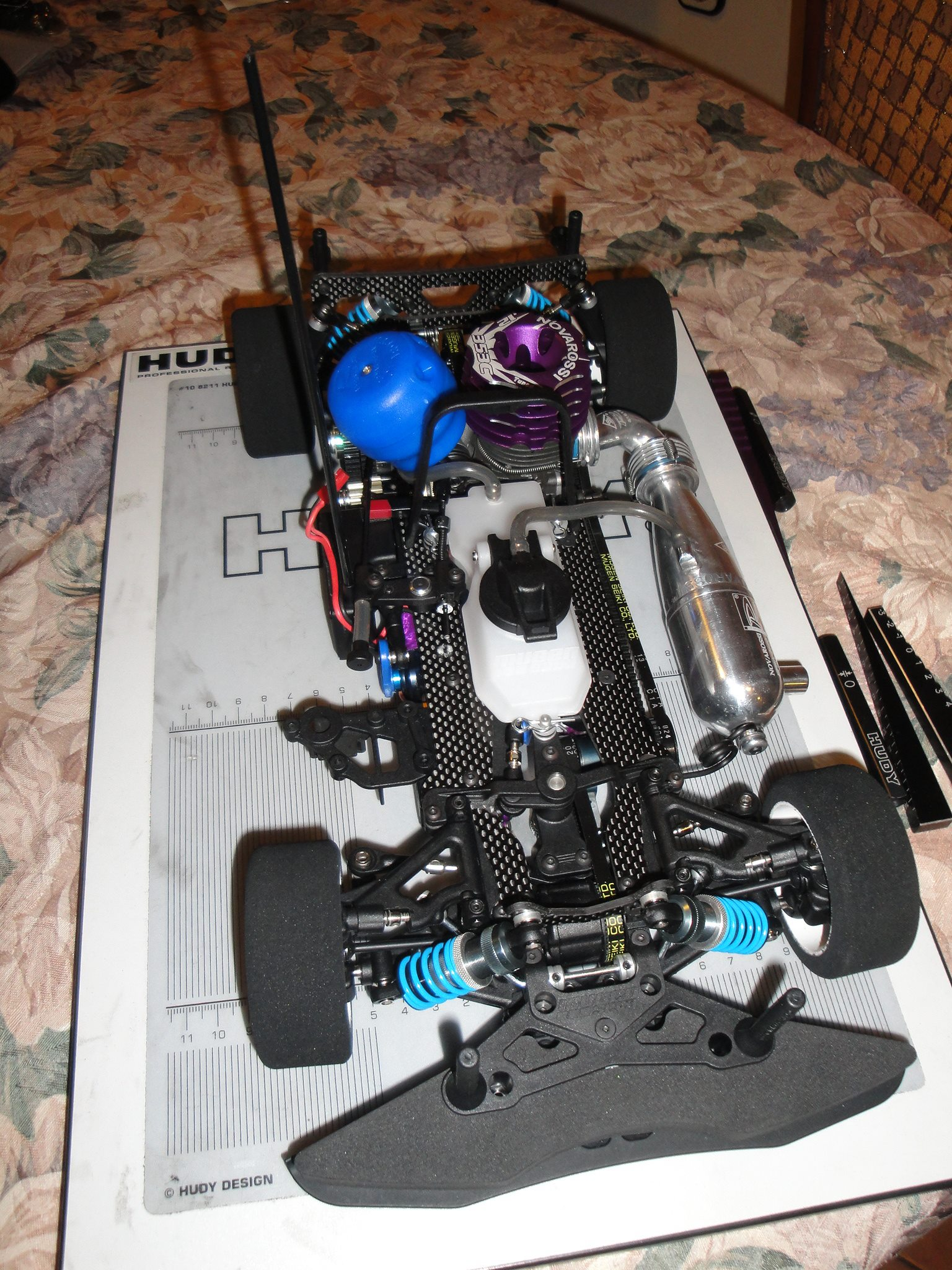 Picture of Mugen MTX5 racing rc model just after it was assembled.